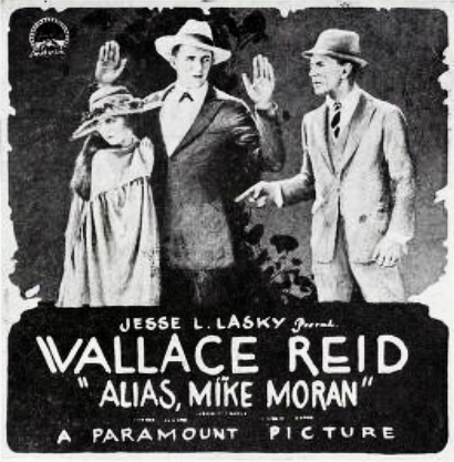 Movie Poster for Alias, Mike Moran